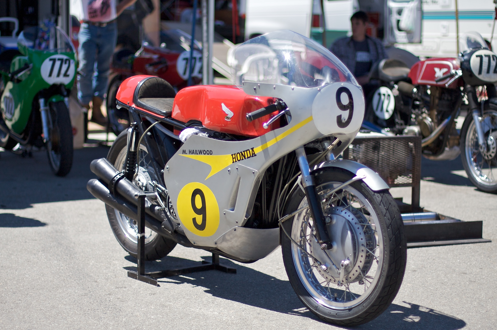 Mike Hailwood's HONDA racing motorcycle